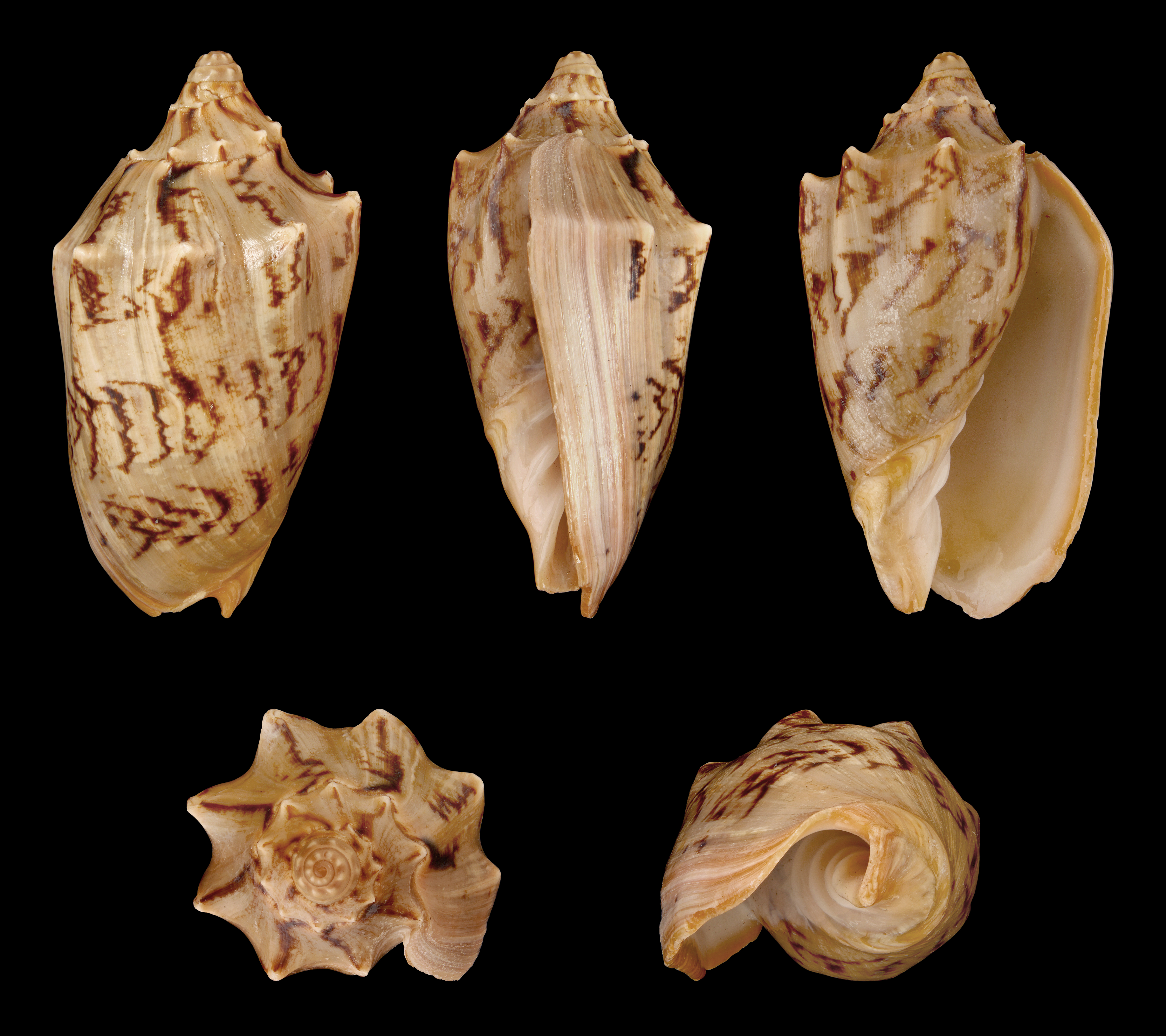 Length 9 cm; Originating from the Philippines; Shell of own collection, therefore not geocoded. Dorsal, lateral (right side), ventral, back, and front view.